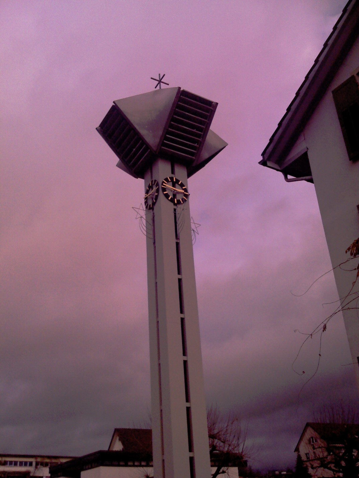 Uster - Tower of the catholic church